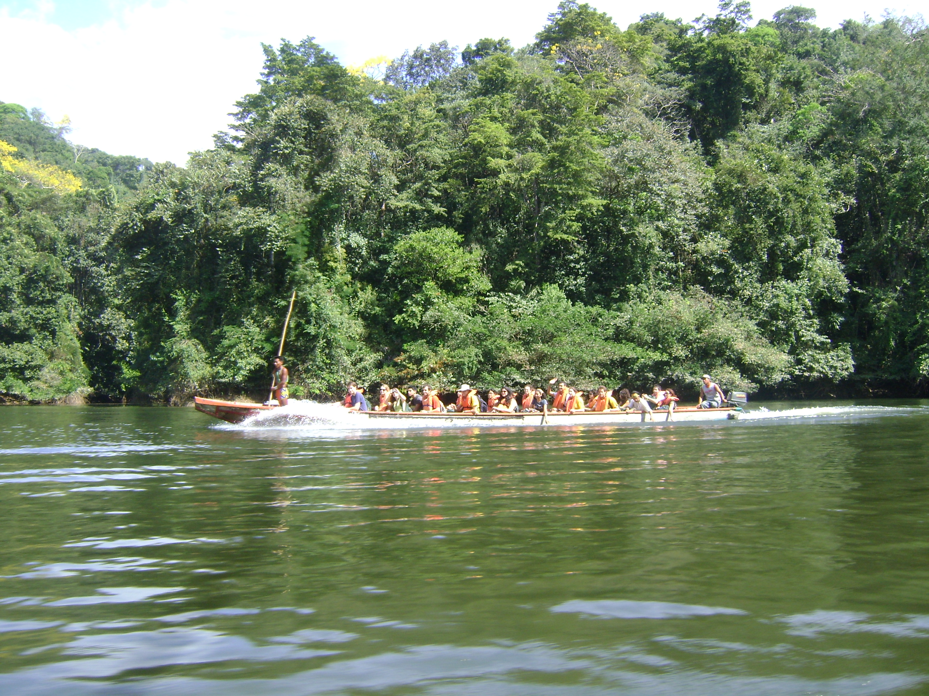 Pequení River, Panama Canal Watershed